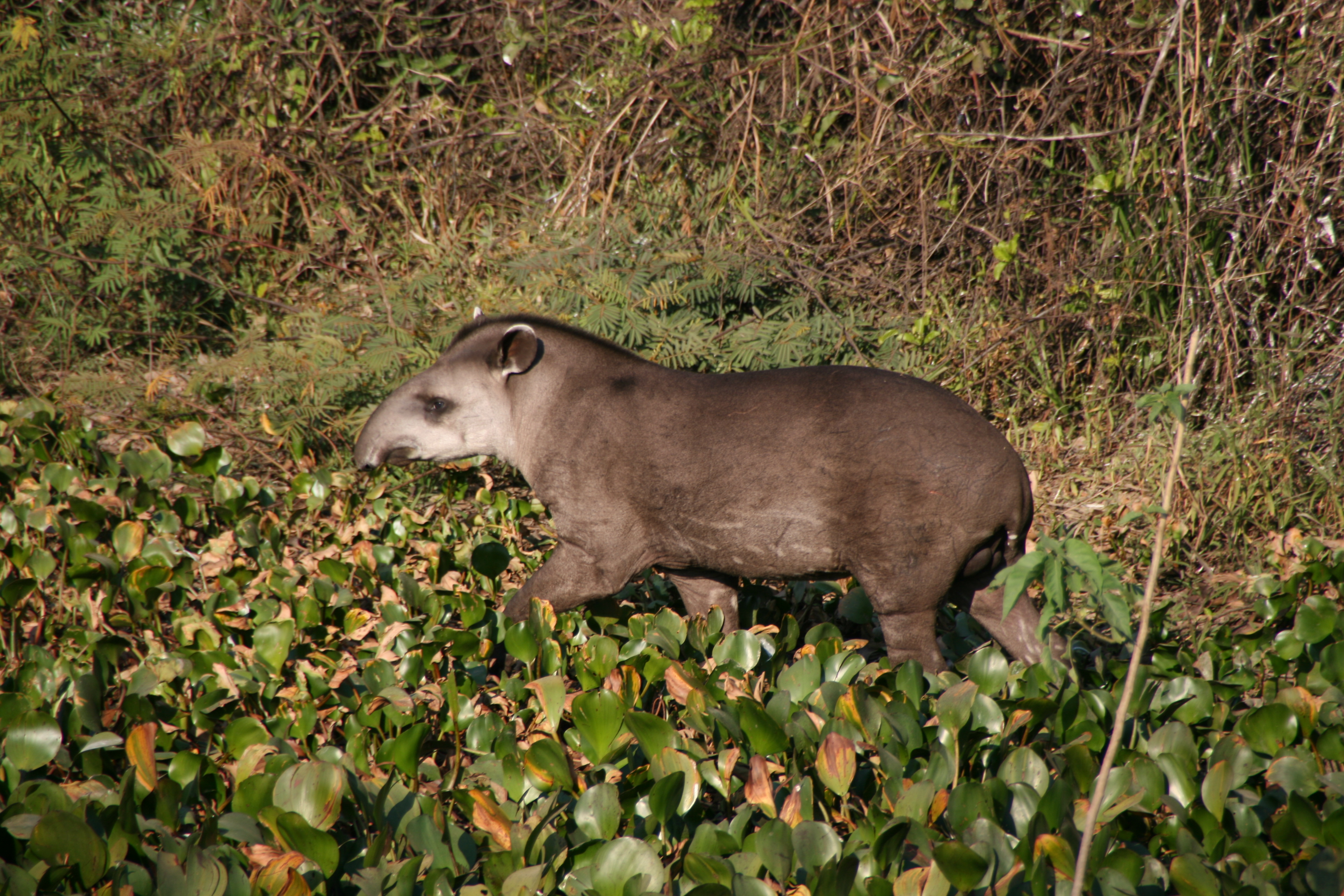 Tapir (Tapirus terrestris) in the Pantanal